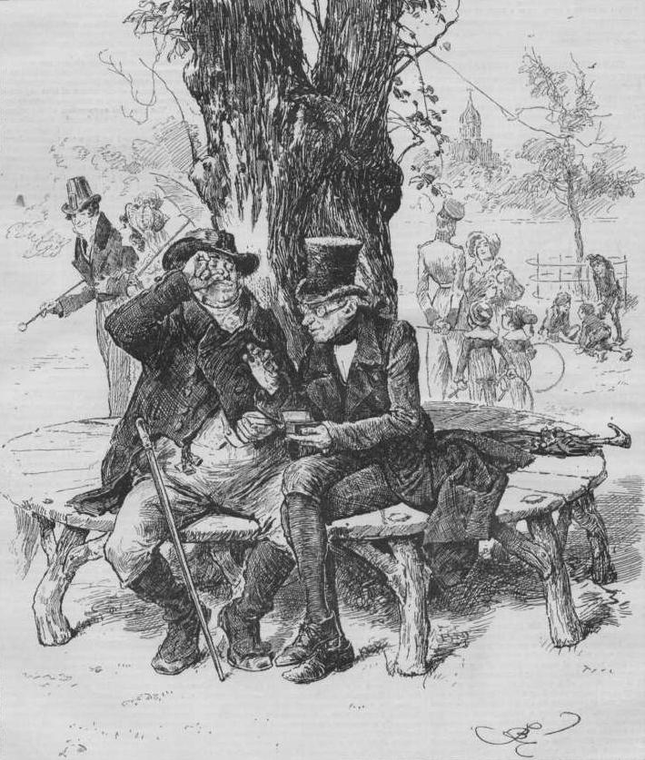 An Antique Pair of Snuffers, drawn by Frederick Barnard and published in Harper's Weekly, May 5, 1888.